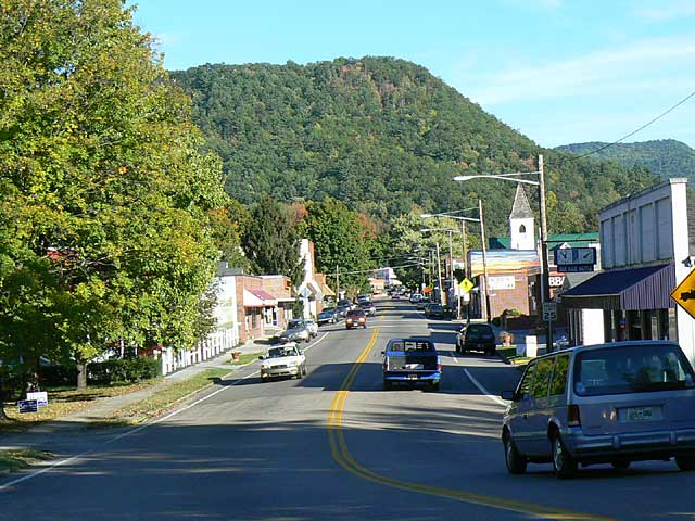 Downtown Damascus, Virginia